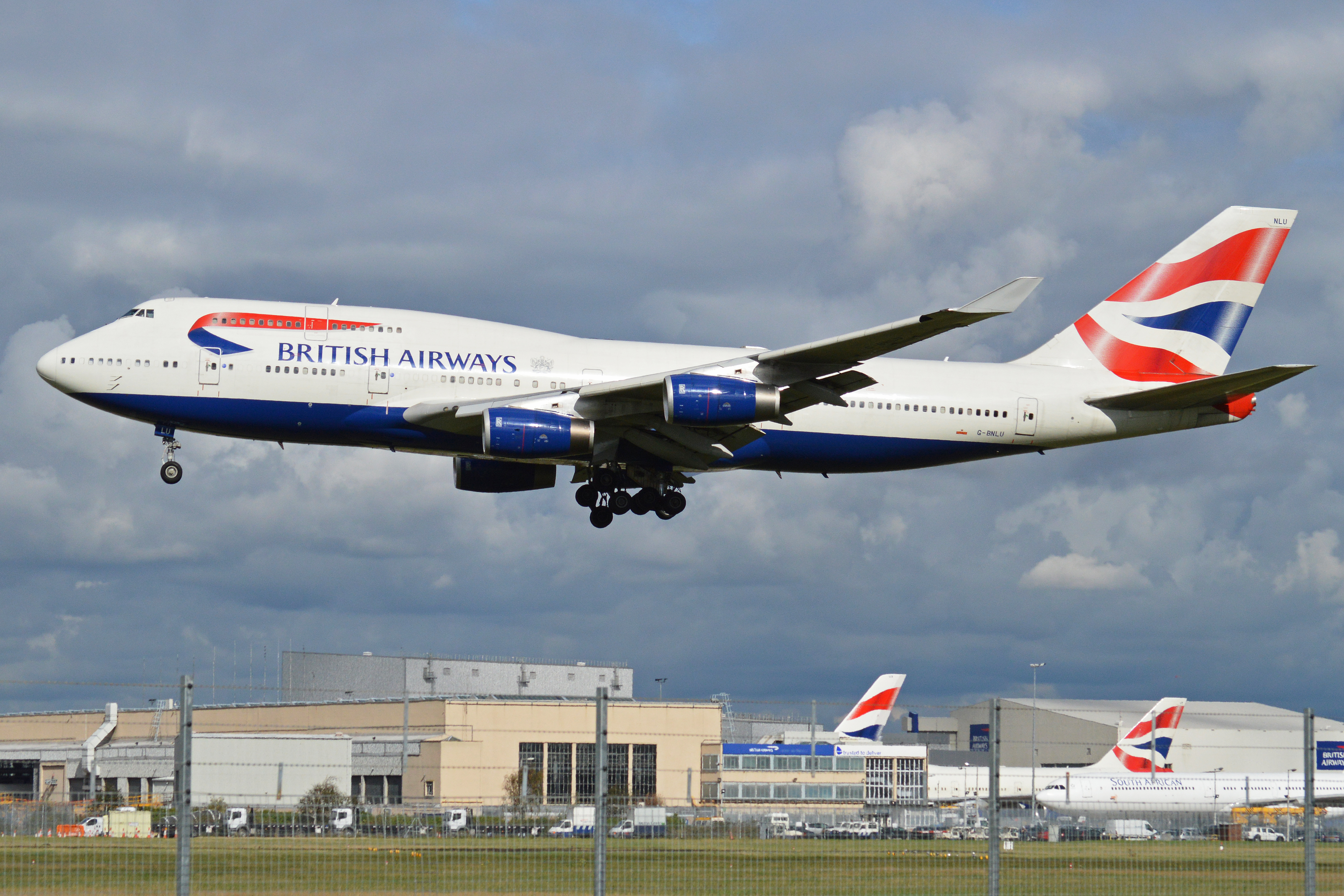 Arriving on flight BA118 from Bangalore. c/n 25406, l/n 895. London Heathrow. 5-10-2013